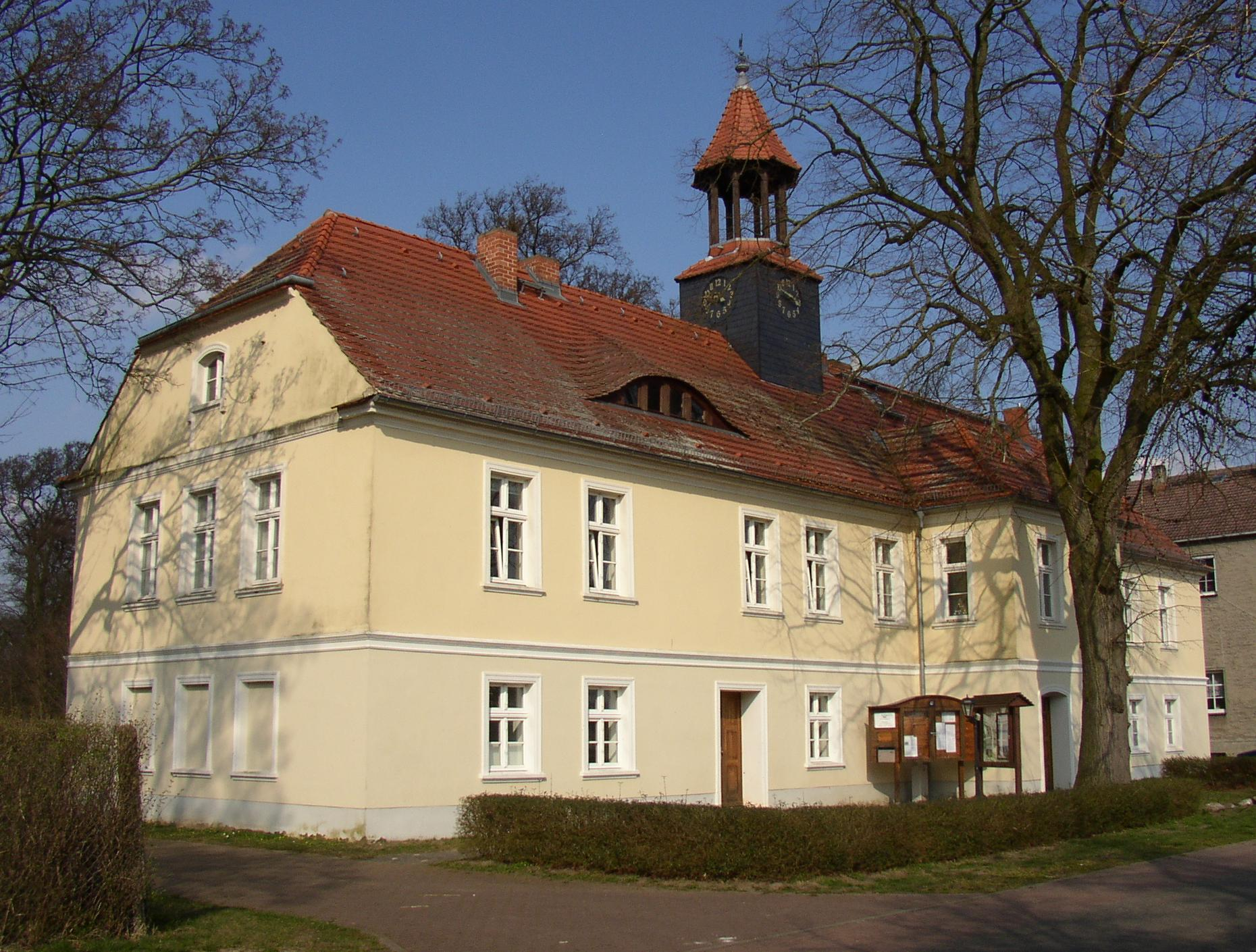 Manor house in Fehrbellin-Wall in Brandenburg, Germany